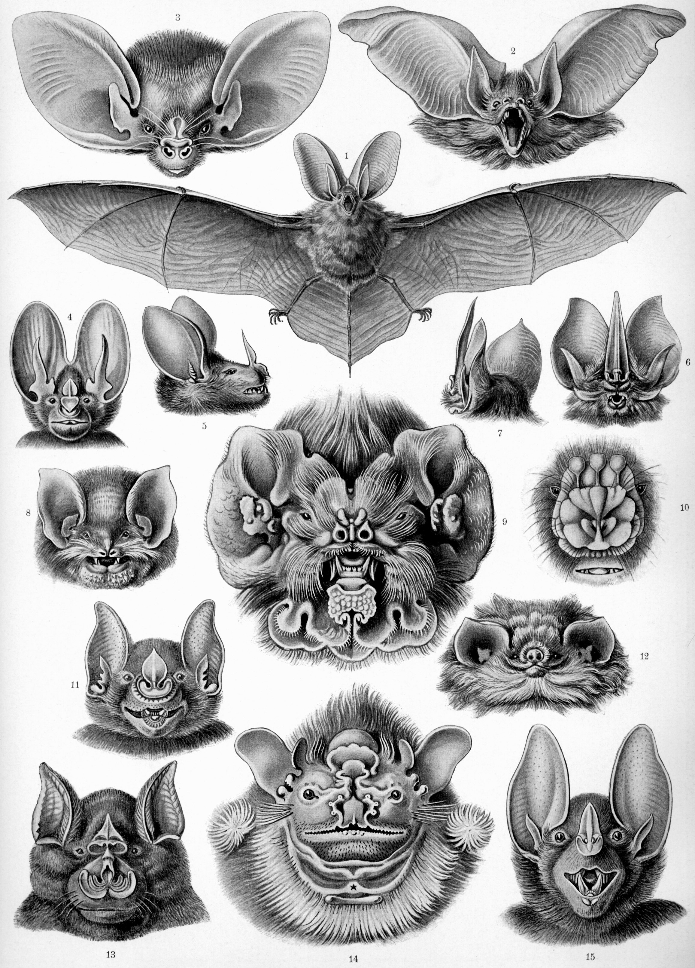 1-2: Brown Long-eared Bat 3: Lesser Long-eared Bat 4: Lesser False Vampire Bat 5: Big-eared Woolly Bat 6-7: Tomes's Sword-nosed Bat 8: Mexican Funnel-eared Bat 9: Antillean Ghost-faced Bat 10: Flower-faced Bat 11: Greater Spear-nosed Bat 12: Thumbless Bat 13: Greater Horseshoe Bat 14: Wrinkle-faced Bat 15: Spectral Bat Full text description (in German)